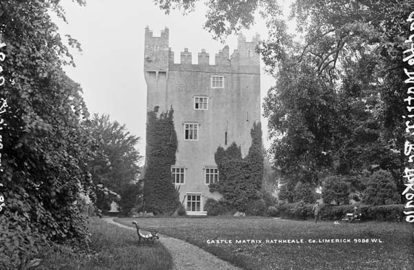 Photograph taken between 1880 and 1914 Part of: National Library of Ireland Lawrence Collection. For more photographs in this collection see National Library of Ireland catalogue: Reference number: L_CAB_09086